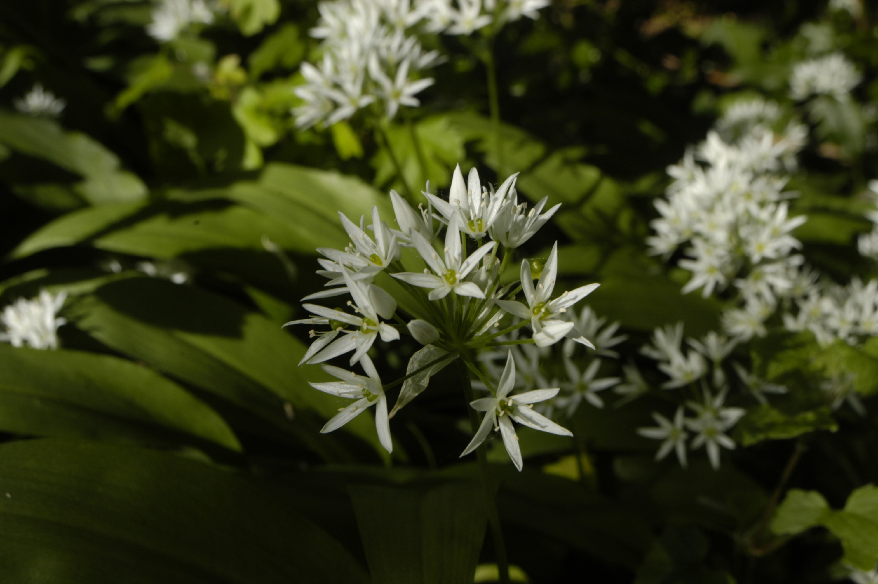 Wild Garlic (allium ursinum), in north-west Hampshire, UK, May 2014.